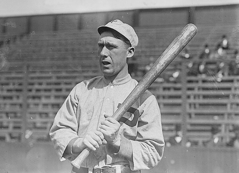 1911 photograph of John Titus, outfielder for the Philadelphia Phillies. This image is cropped slightly from the original plate.